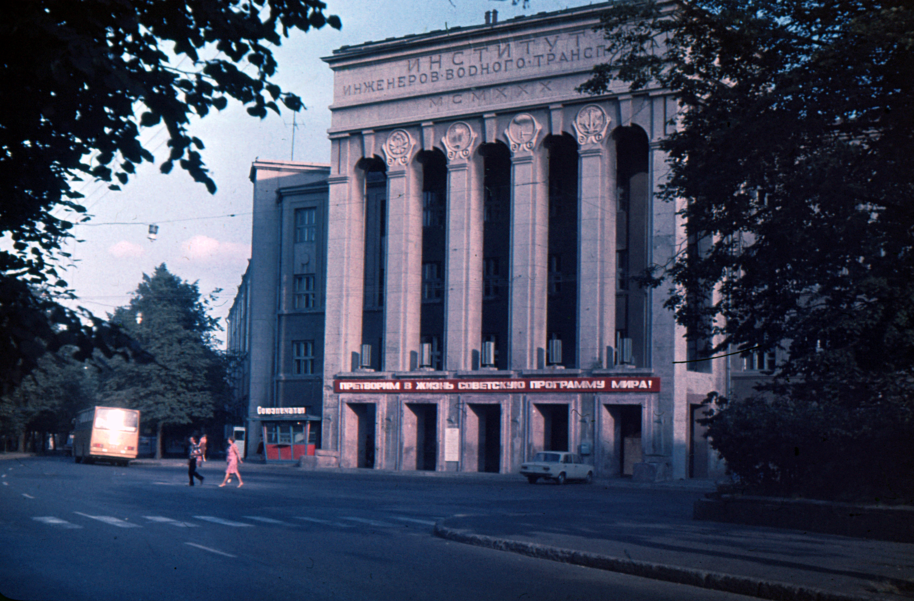 Gorky City, USSR. Volga State Academy of River Transport